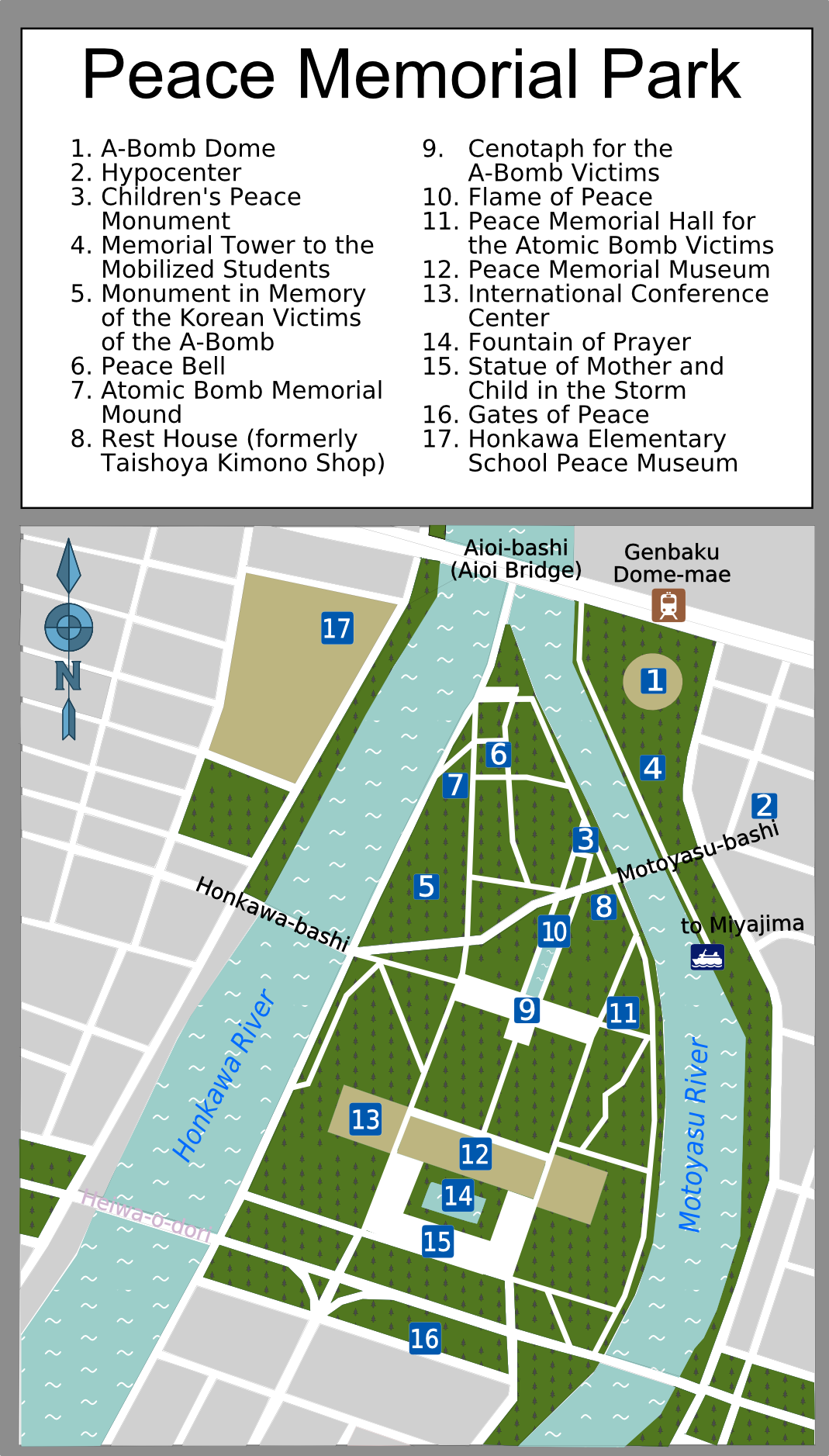 Hiroshima Peace Memorial Park. Hiroshima Peace Memorial Park, Hiroshima. This map may be incomplete, and may contain errors. Don't rely solely on it for navigation.